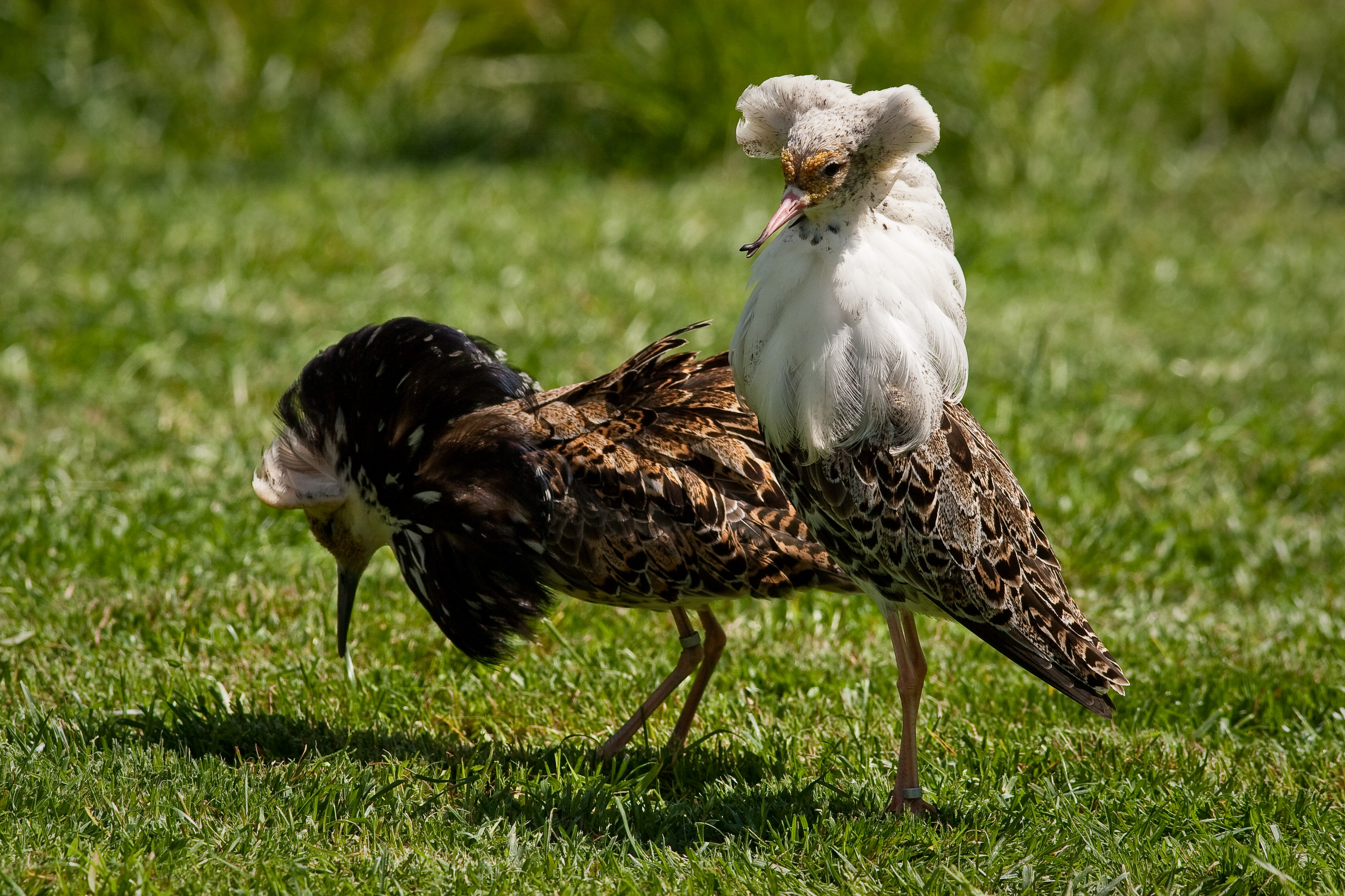 Two male Ruff at Diergaarde Blijdorp, Netherlands.